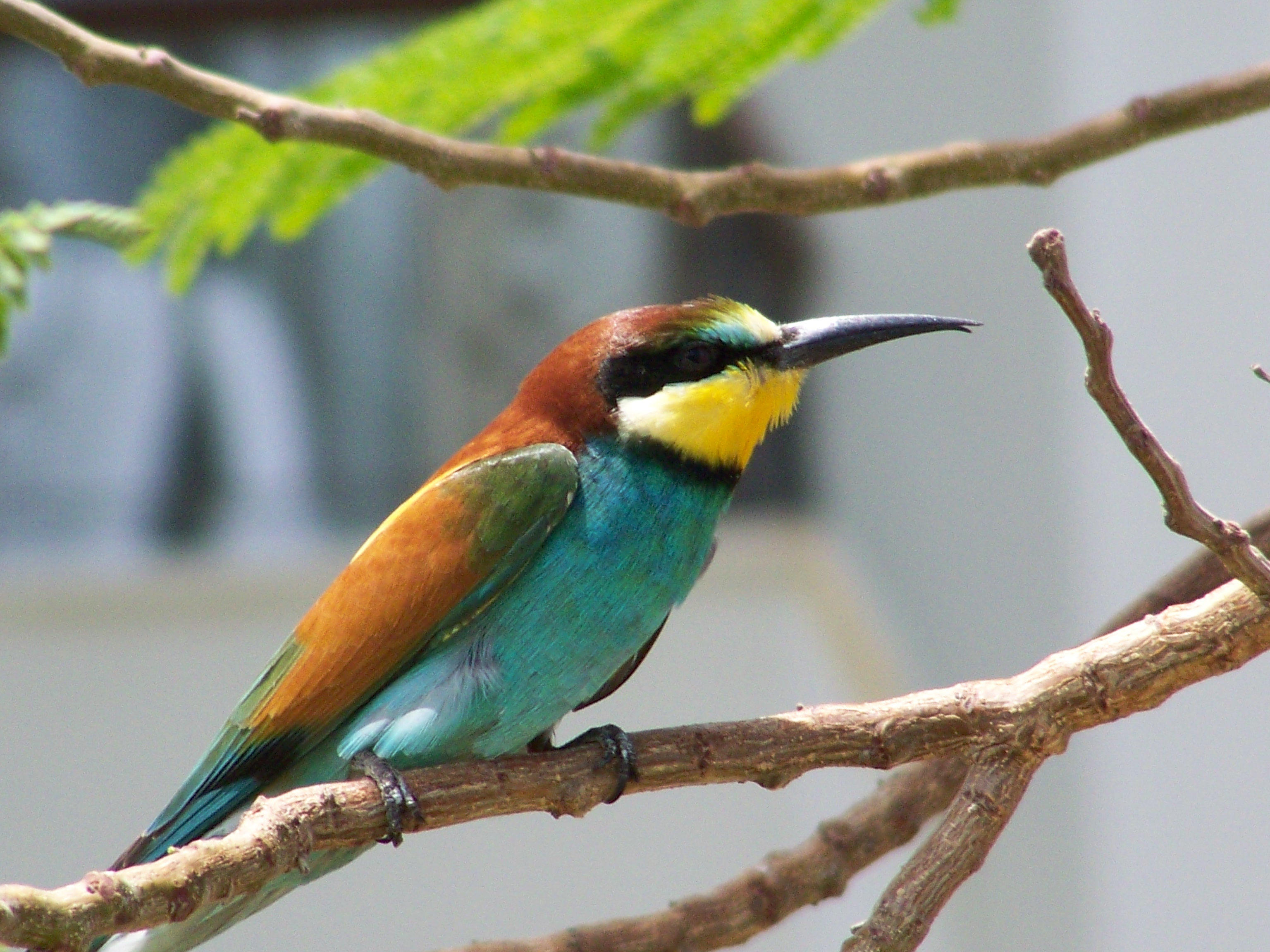 European Bee-eater - Merops apiaster